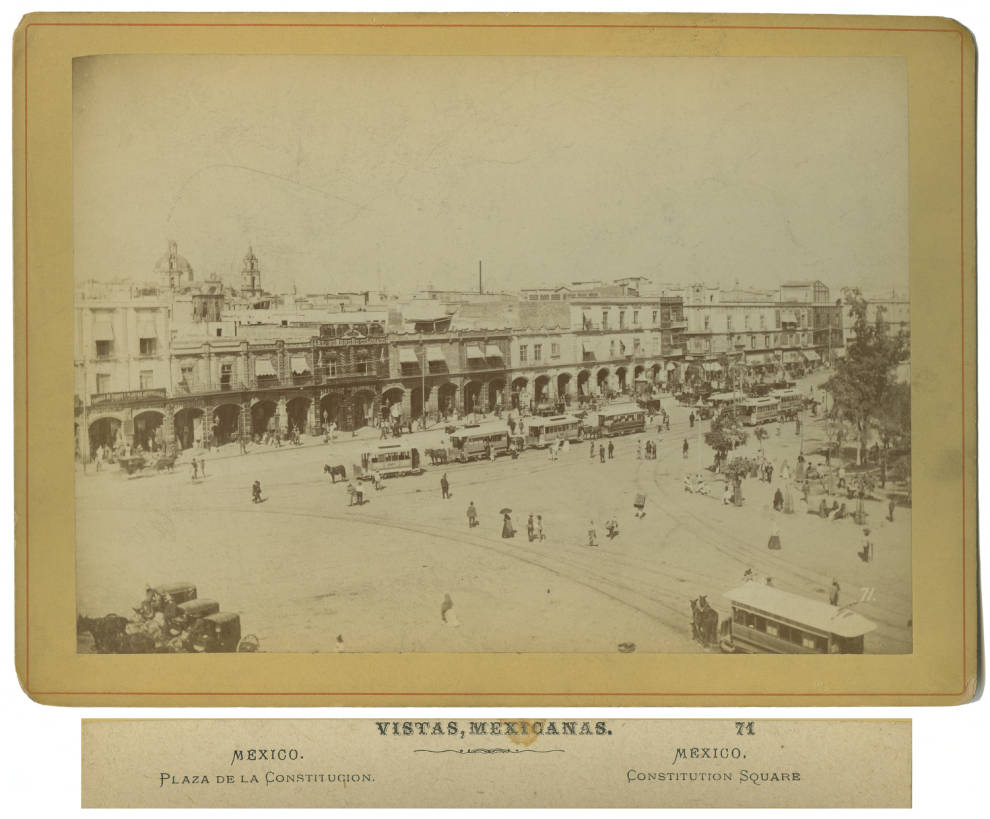 Title: Mexico, Plaza de la Constitucion. Alternative Title: Mexico, Constitution Square Creator: Briquet, Abel Date: ca. 1885-1899 Part Of: Views in Mexico Place: Mexico City (Mexico D.F.), Mexico Physical Description: 1 photographic print on boudoir card mount: albumen; 13 x 19 cm on 16 x 22 cm mount File: ag1985_0372_071c_plaza.jpg Rights: Please cite DeGolyer Library, Southern Methodist University when using this file. A high-resolution version of this file may be obtained for a fee. For details see the web page. For other information, . For more information and to view the image in high resolution, see: View the Mexico: Photographs, Manuscripts, and Imprints